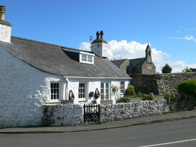 Abererch cottage